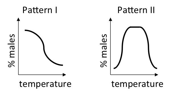 Patterns of Temperature-Dependent Sex-Determination in reptiles; after Shoemaker CM, Crews D. (2009) Analyzing the coordinated gene network underlying temperature-dependent sex determination in reptiles. Semin Cell Dev Biol. 2009 May;20(3):293-303.